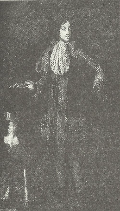 Afonso de Vasconcelos Sousa Cunha Câmara Faro e Veiga, 5th Count of Calheta (1664-1734)